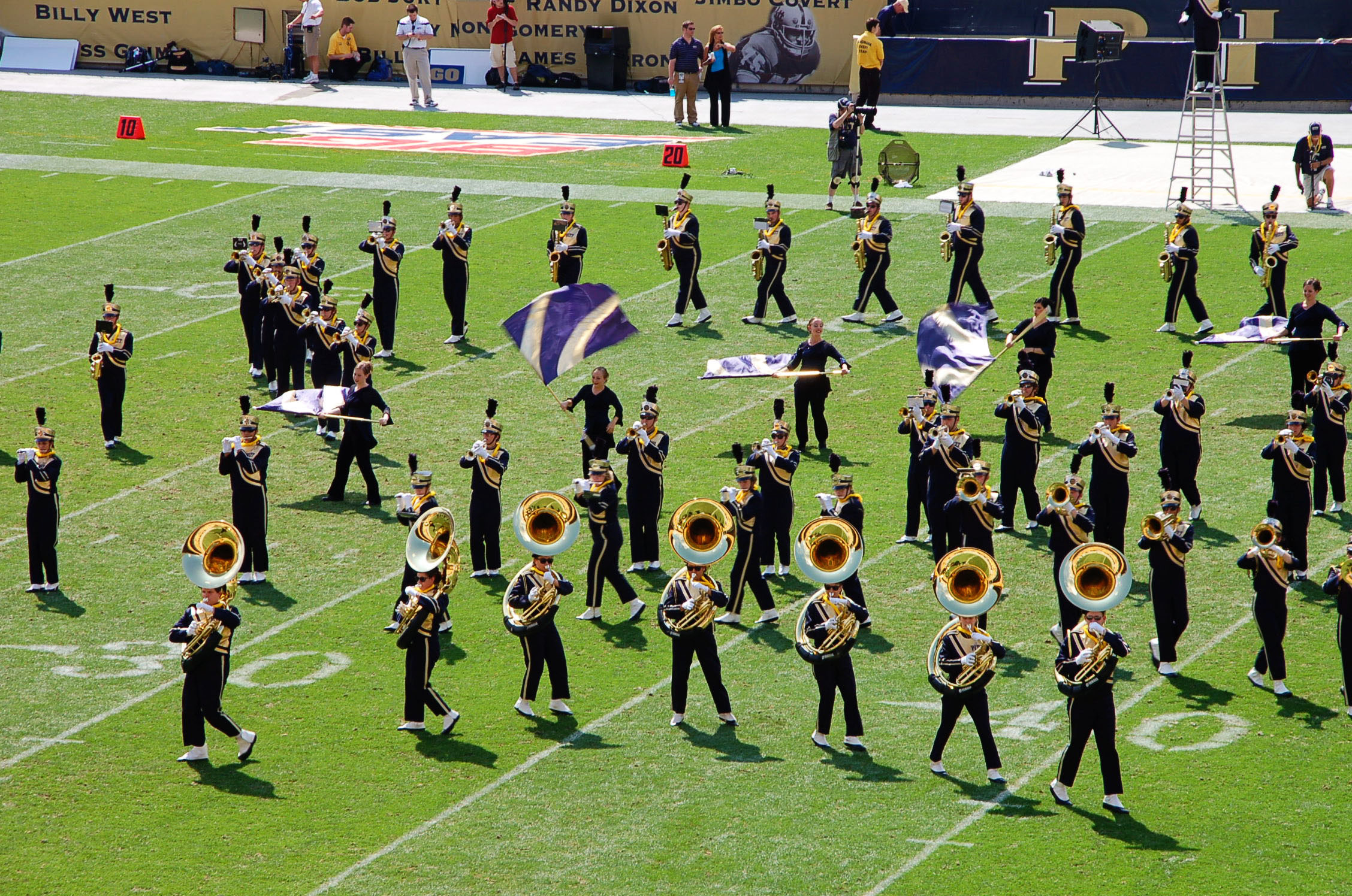 The Band